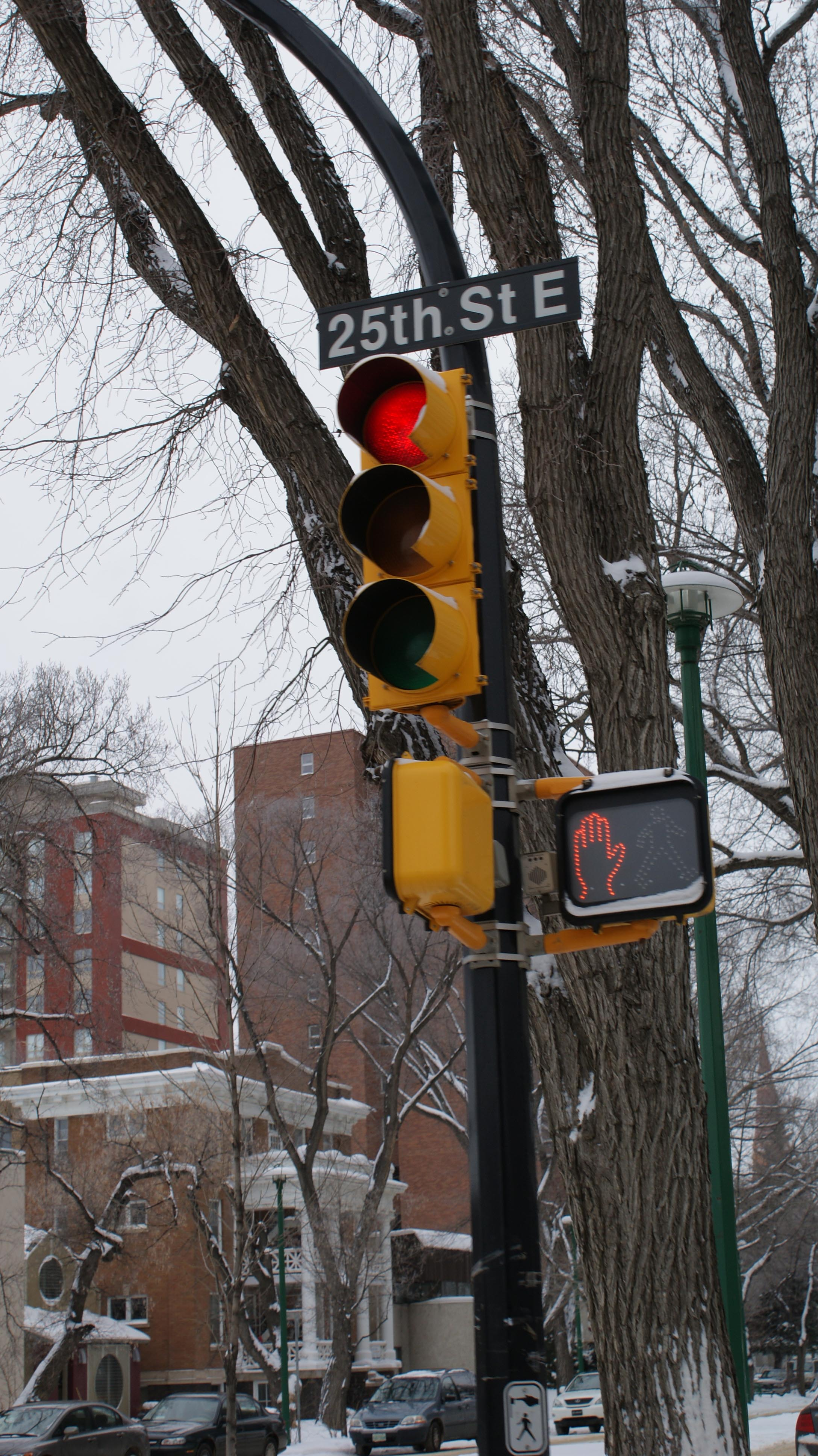 Traffic lights along 25th Street in Saskatoon, Canada